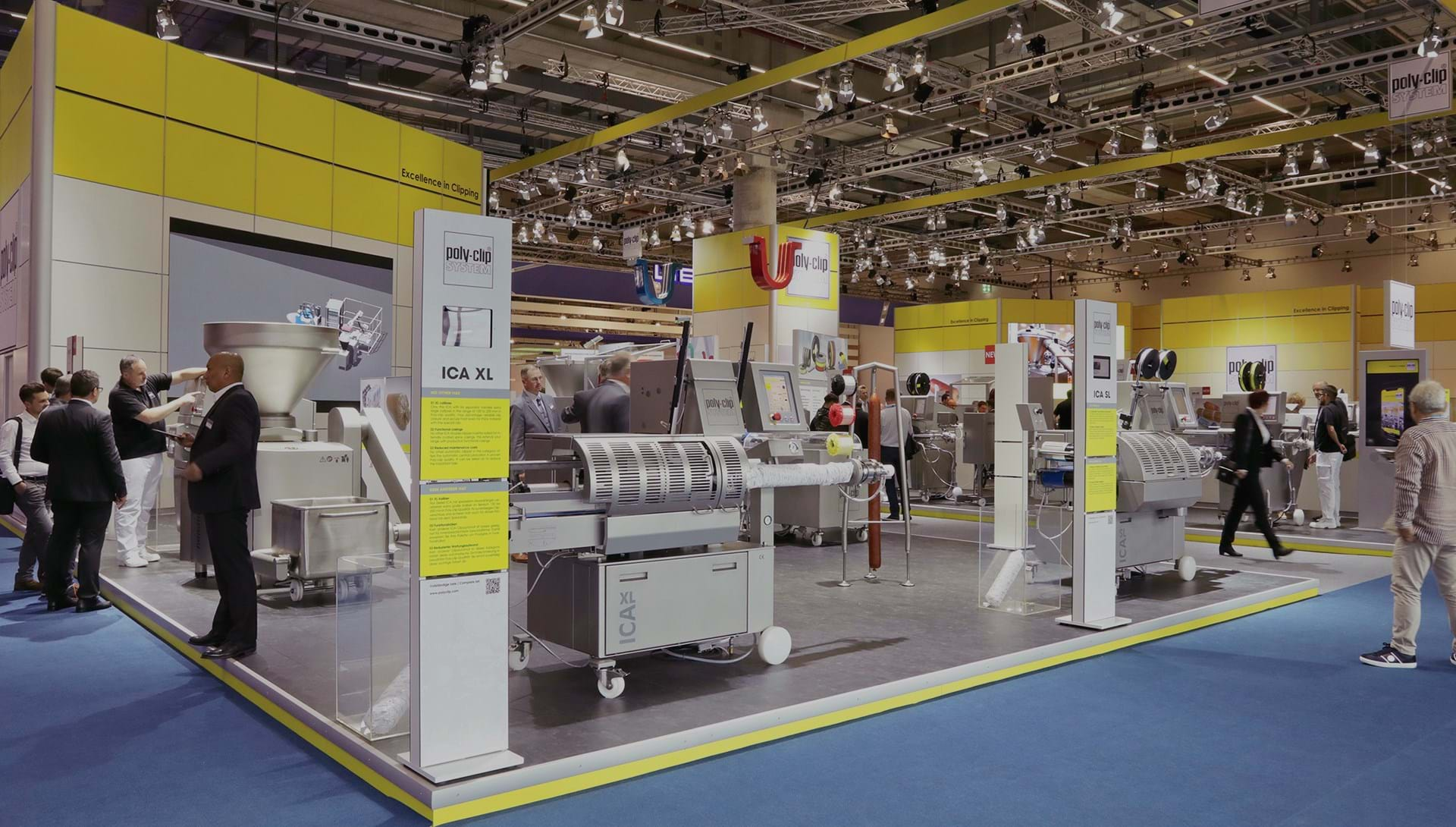 Automatic Clippers for sausage and ham, clip closure packaging